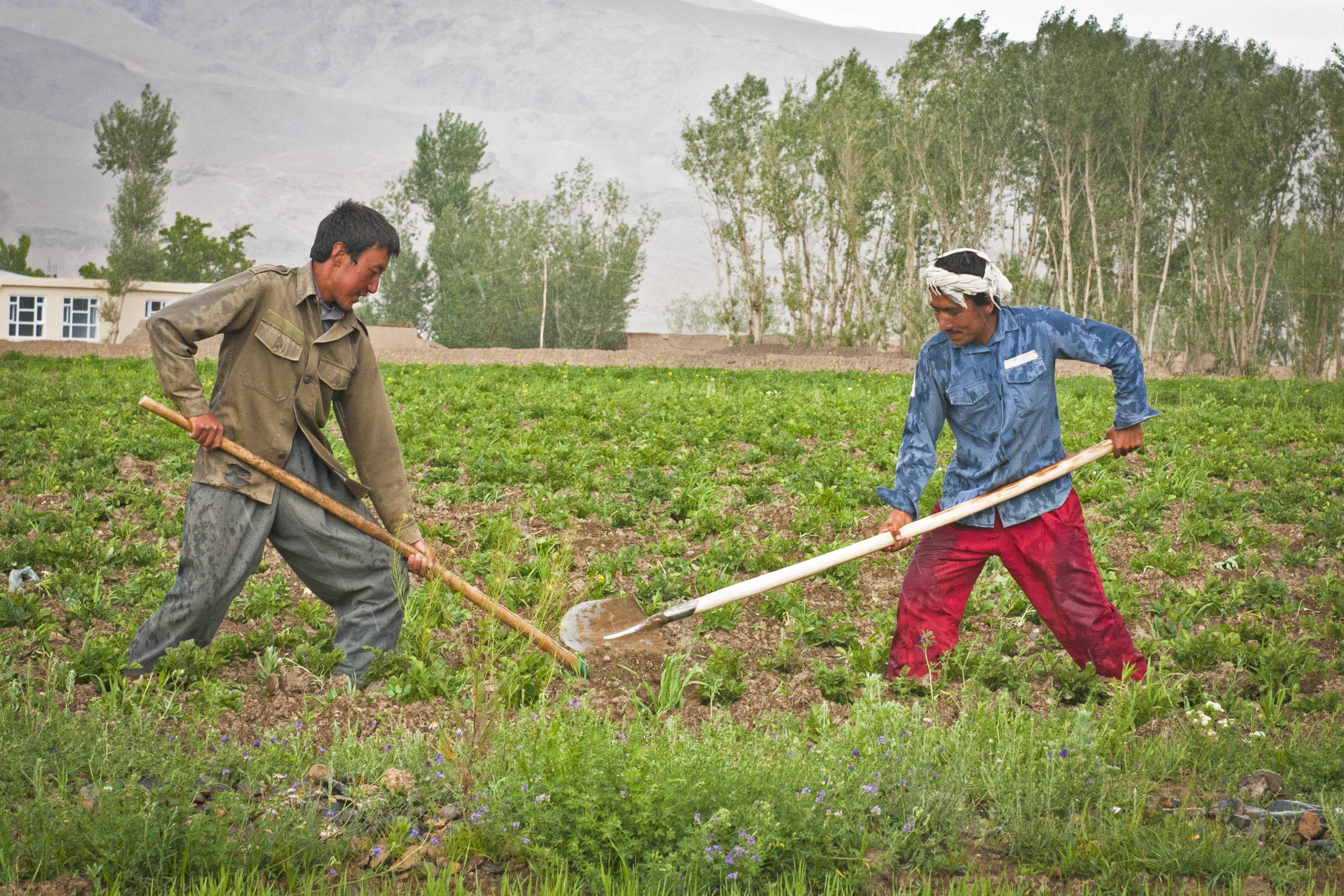 Two farmers tend to a potato field near the town of Bamyan, June 16, 2012. Many farms in the area are still planted and harvested entirely by hand. The Bamyan Provincial Reconstruction Team has been laboring to replace these kinds of outdated farming techniques with mechanization (tractors) and other modern advancements. Potatoes have become the main cash crop for the province, contributing millions of dollars to its economy every year. (Photo ID: 614479)